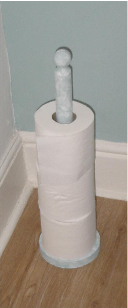 Vertical toilet roll holder with decorative paint finish. The plain wooden artefact was bought in Belgium in 1987 and has been painted by Sonia Duncan to match the room decor. The depicted finish was applied in 2005.